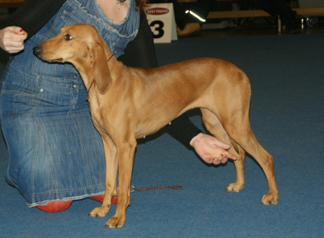 A female red-fawn Short-haired Italian Hound.